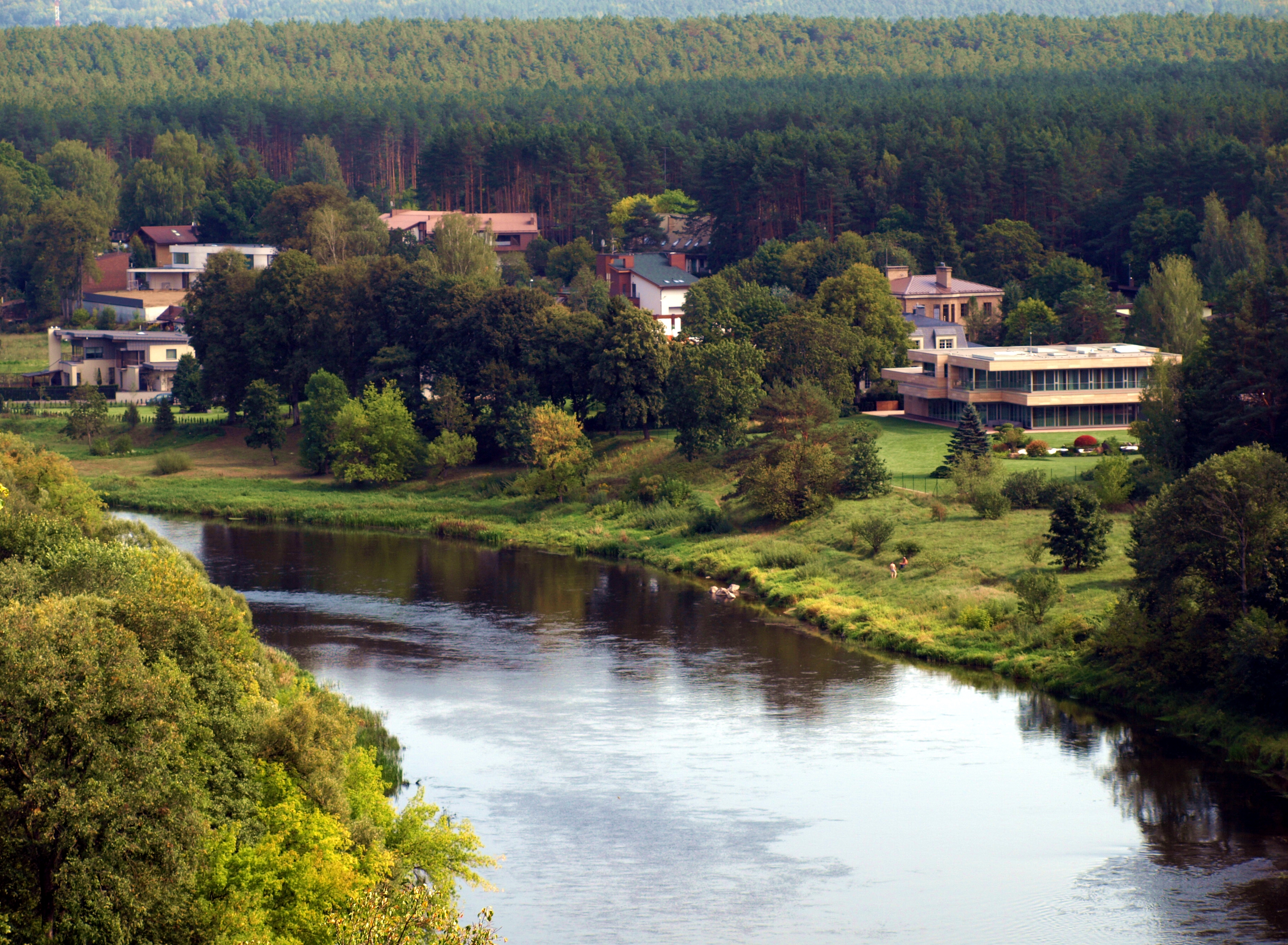 Valakampiai neighborhood, Vilnius